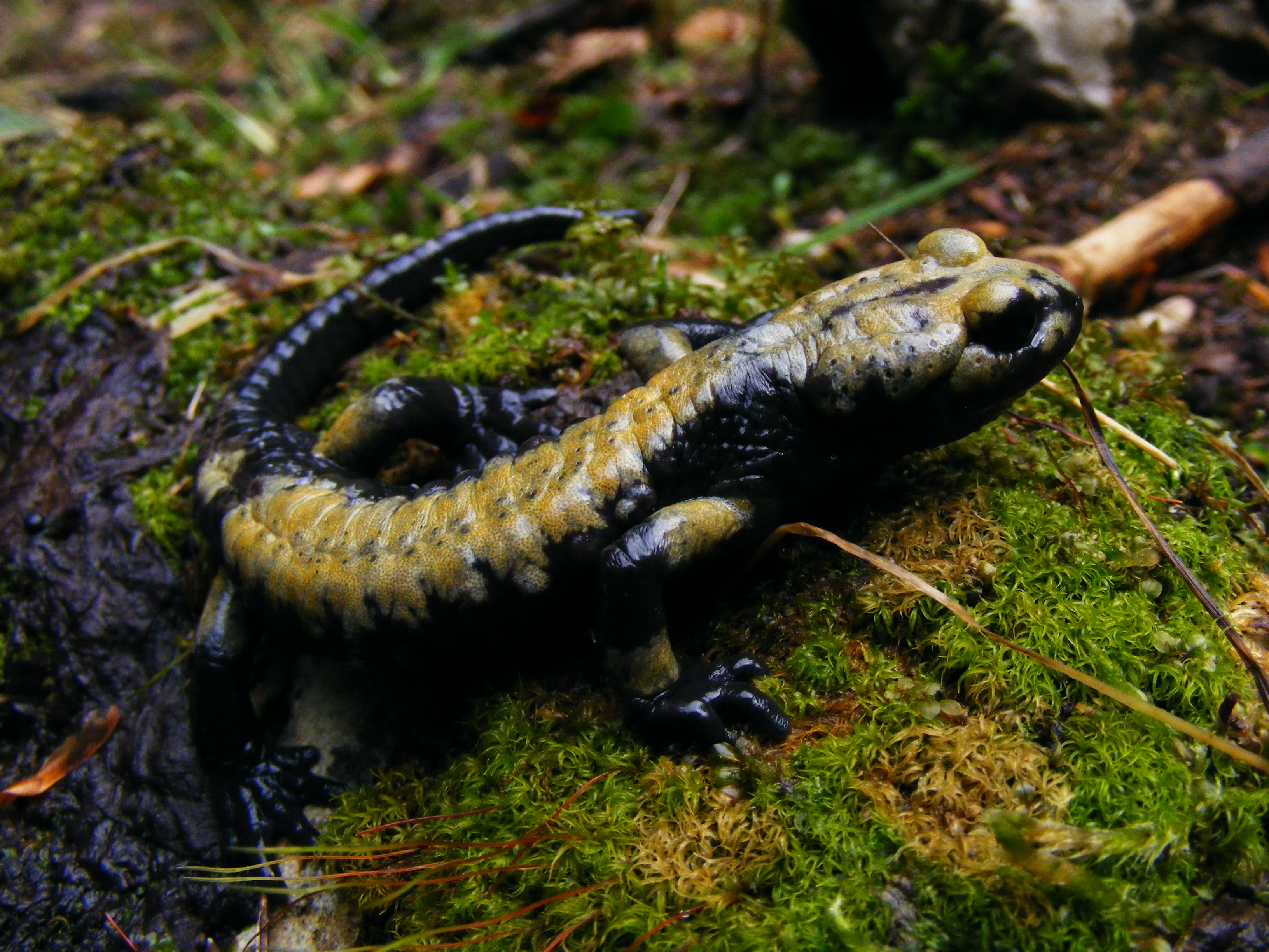 Salamandra atra aurorae, Altopiano dei Sette Comuni, June 2014